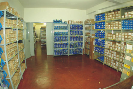 Materiais